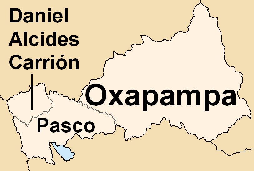 Provinces of the Pasco region in Peru (Map)